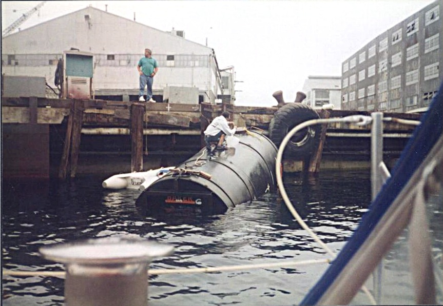 Tank and keel at Long Beach, California